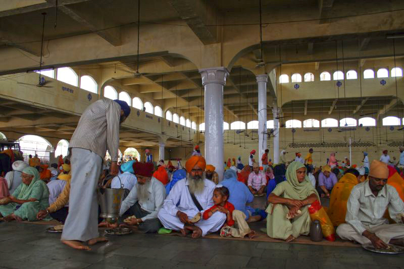 From the Sikh holiday of Vaisakhi in Keshgarh Sahib. Original caption: Partaking in langar . We had bread, rice, dhal and chutney.